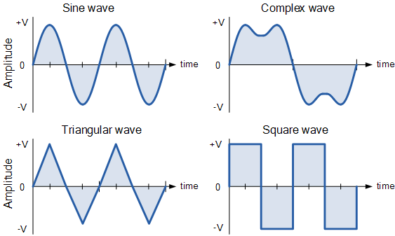 Sinusoidal waveform